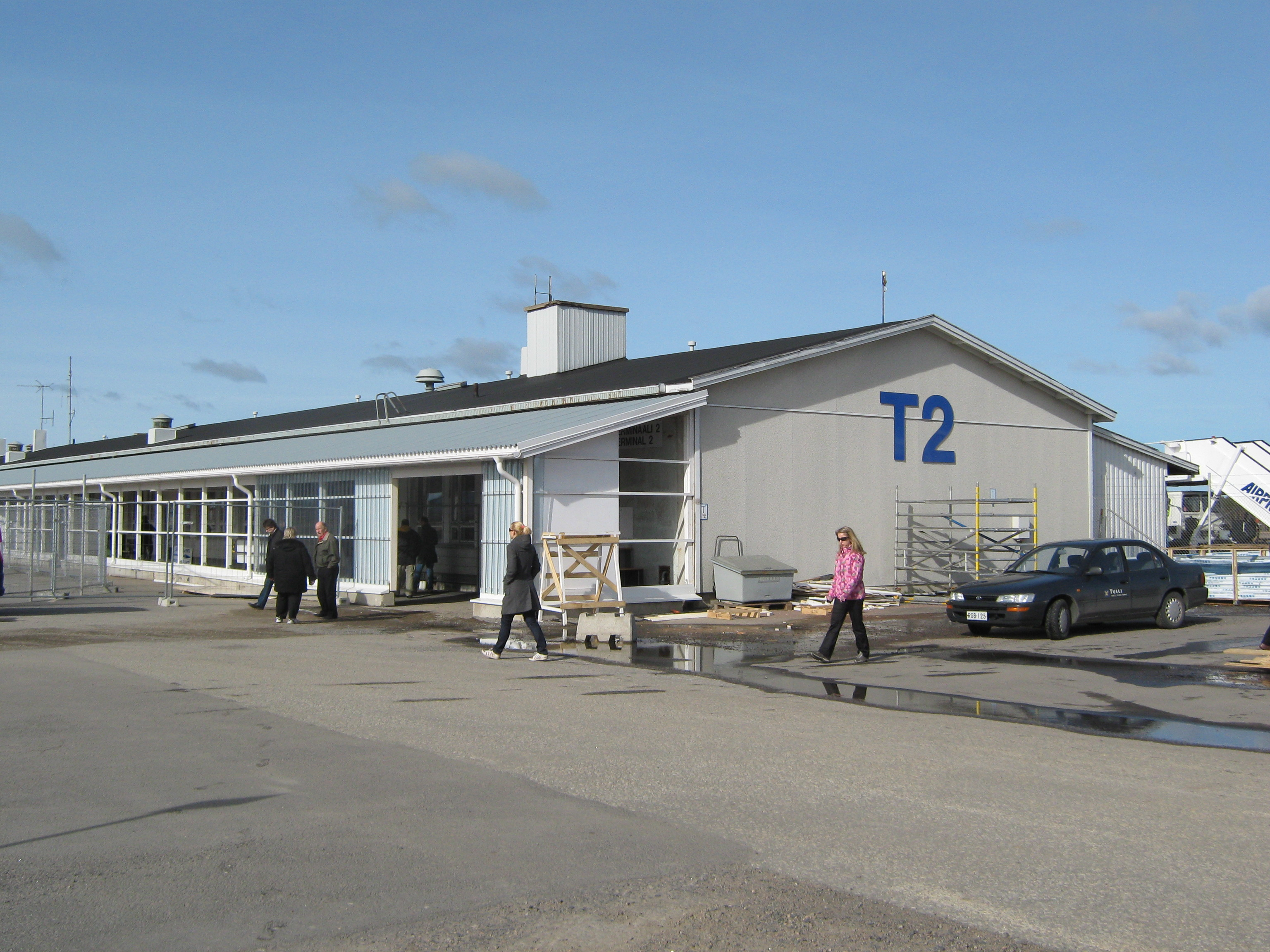 T2 is a low-cost airport terminal at Turku Airport, TKU/EFTU and at time of photo shoot under enlargement.